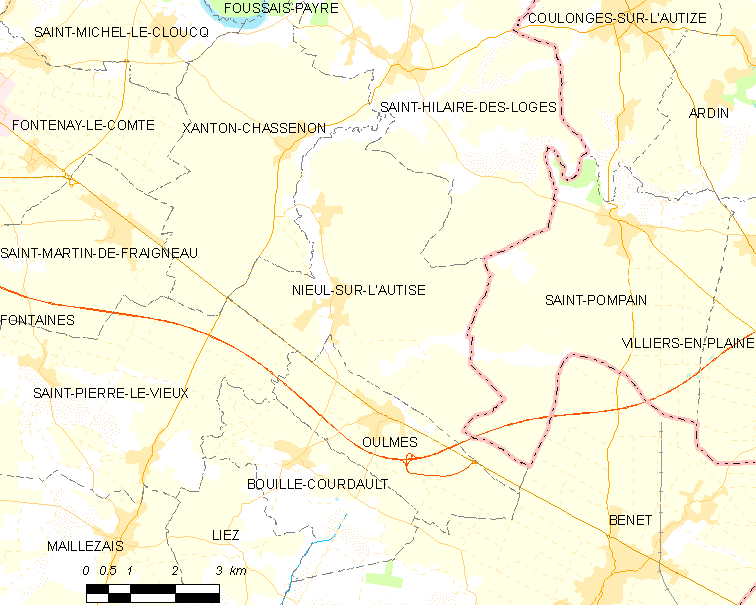 Map of French municipality Nieul-sur-l'Autise